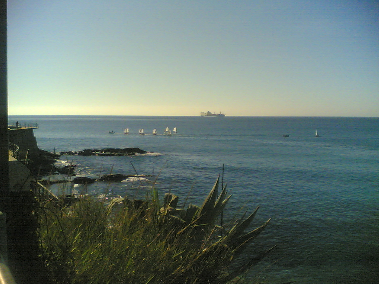 Quarto, part of the Italian city Genoa 10.44 domenica 8 ottobre 2006 Genova - Quarto